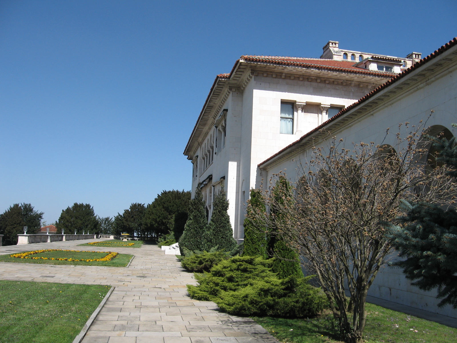 Royal Palace in Royal Compound, Belgrade